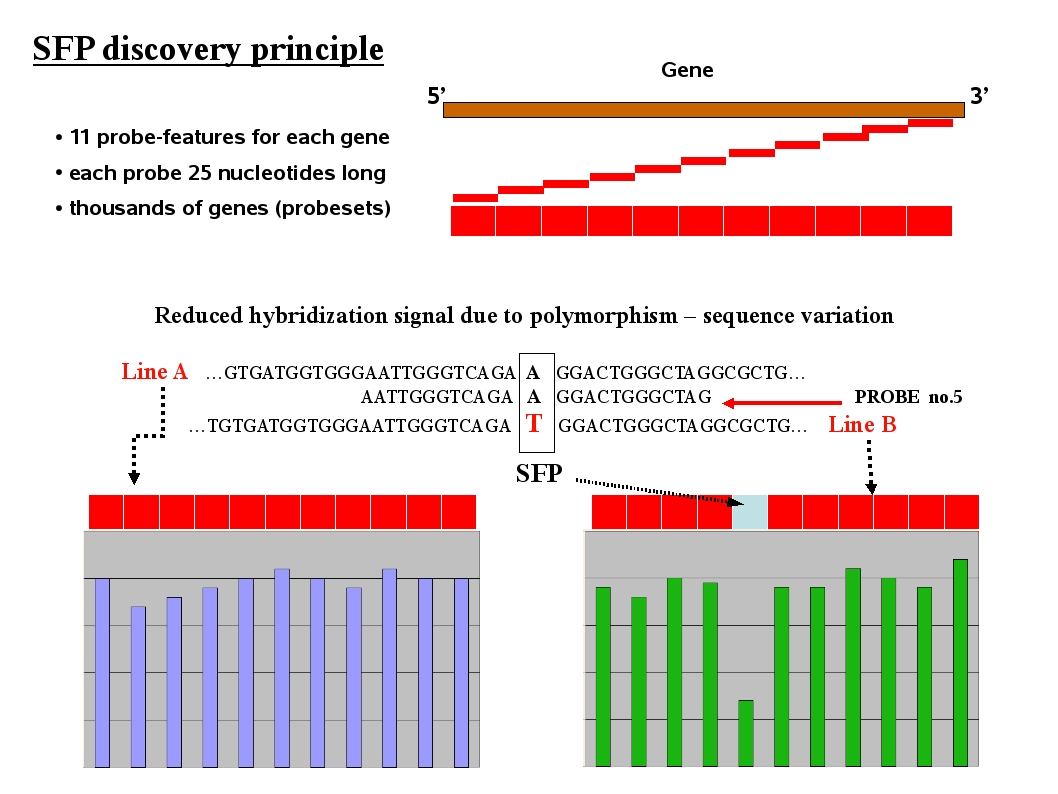 Single Feature Discovery Principle with Affymetrix Microarrays